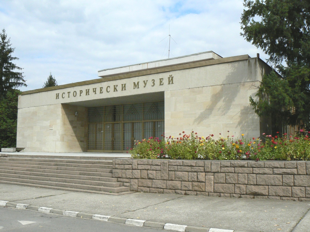 The history museum of Perushtitsa, Bulgaria